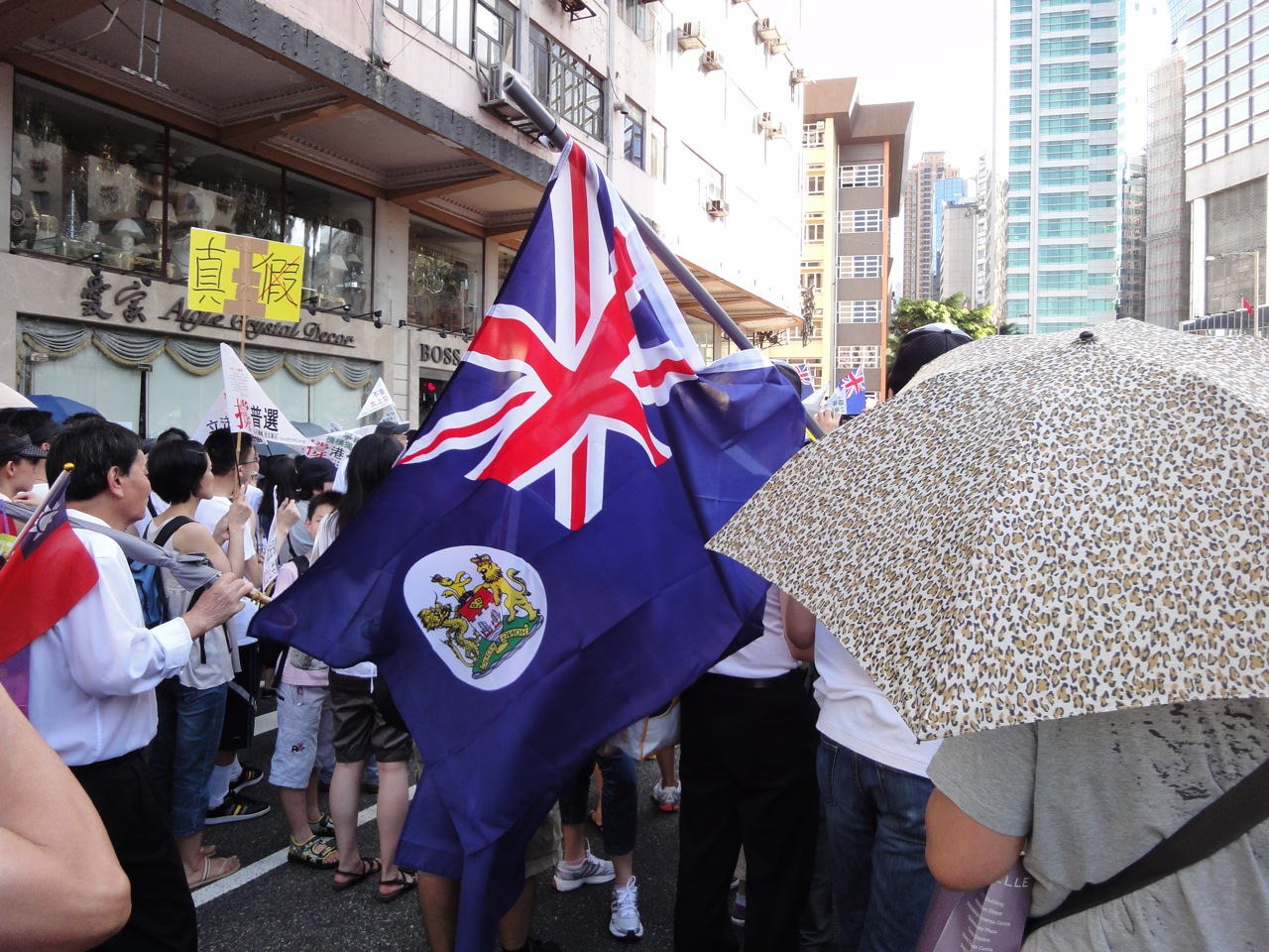 Hong Kong 1 July Match with British Hong Kong Flag